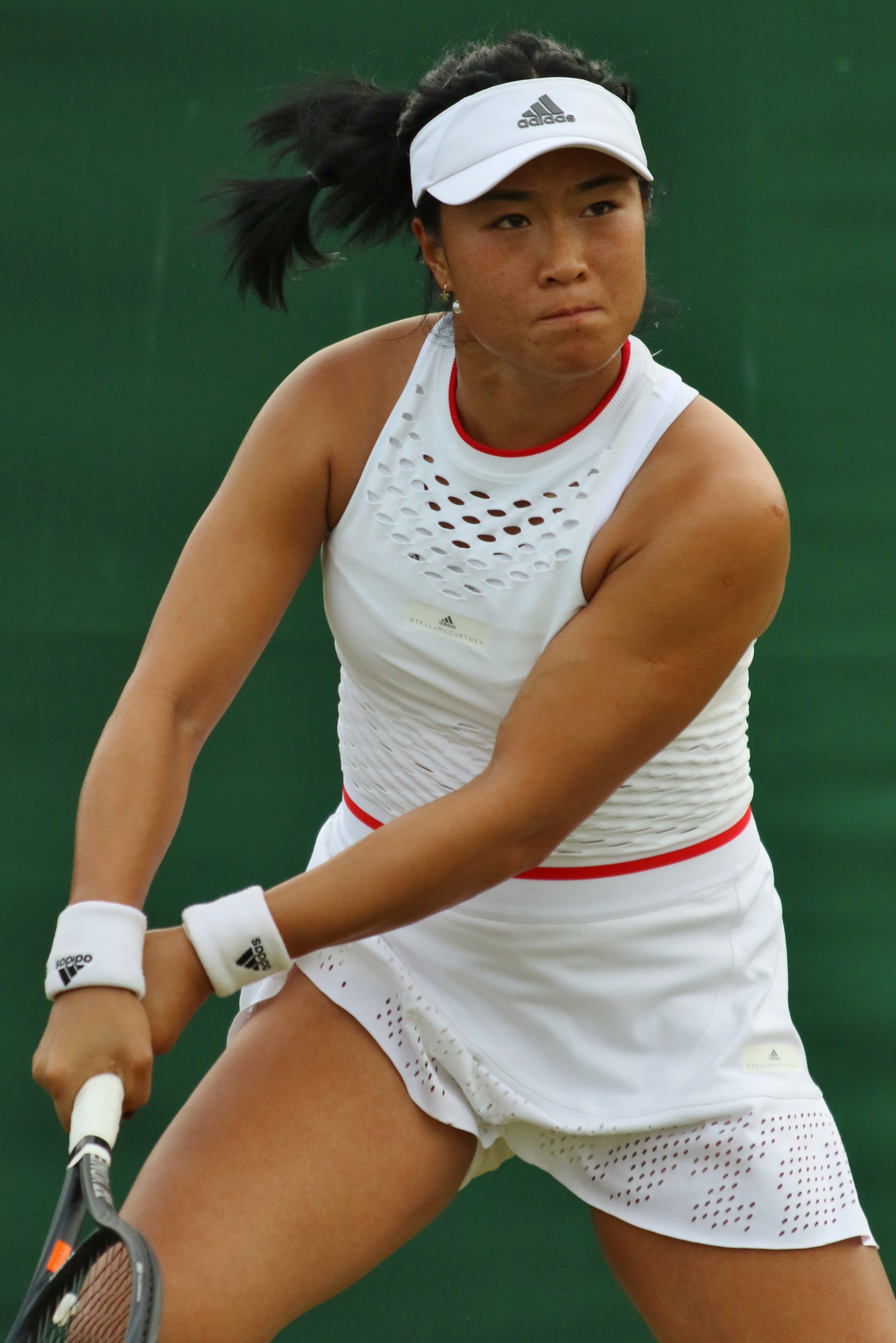 2019 Wimbledon Qualifying Tournament.